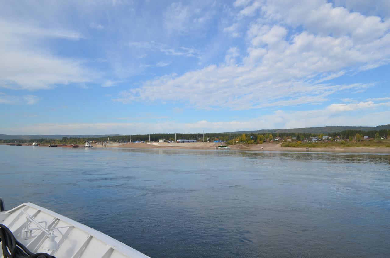 This photos are made during cruise Yakutsk — Lеnskiye Shchyoki, Lena Cheeks — Yakutsk (with arrival in Mirny), 05.09−17.09.2016